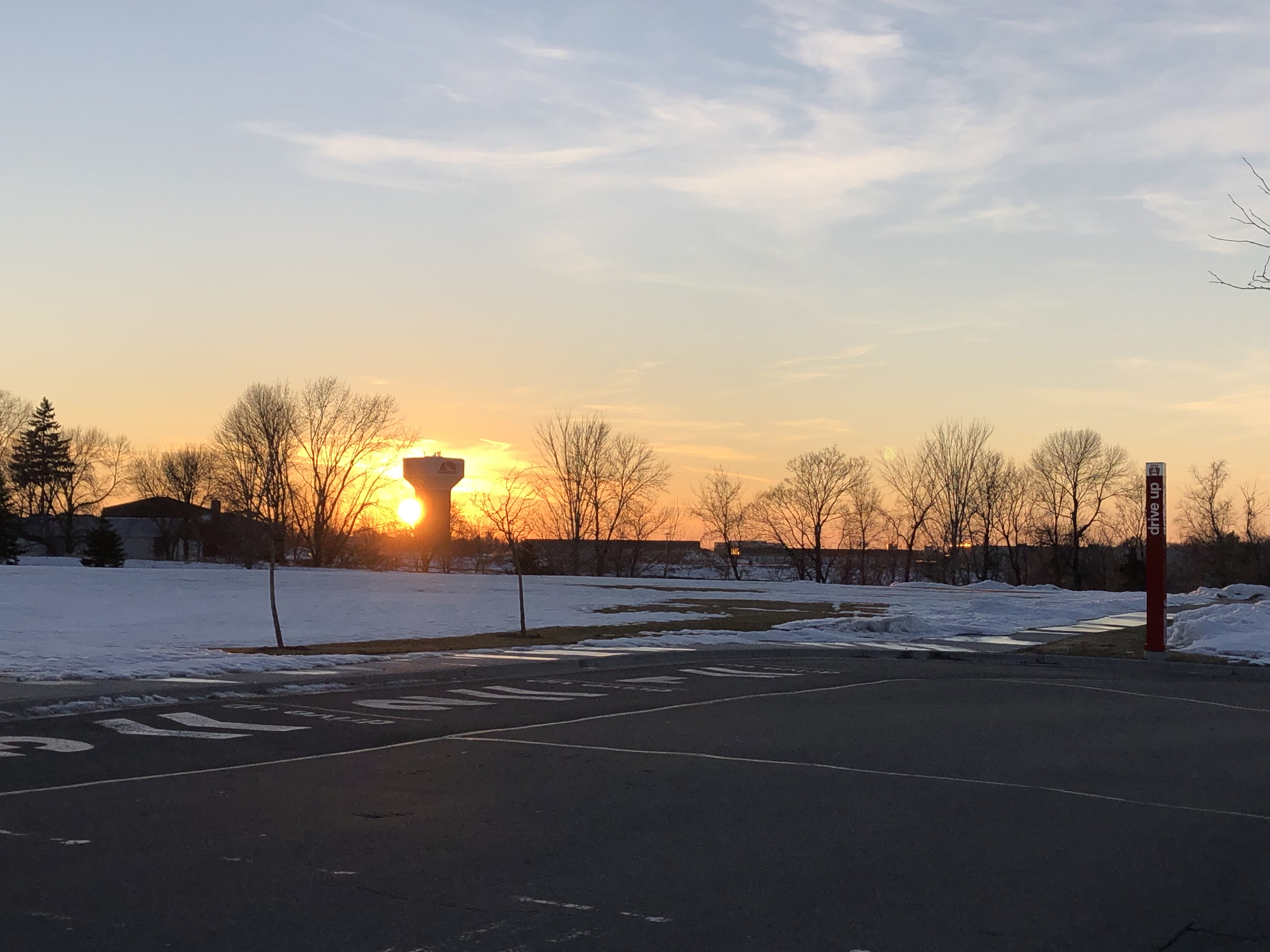 Sunset behind Waconia watertower.